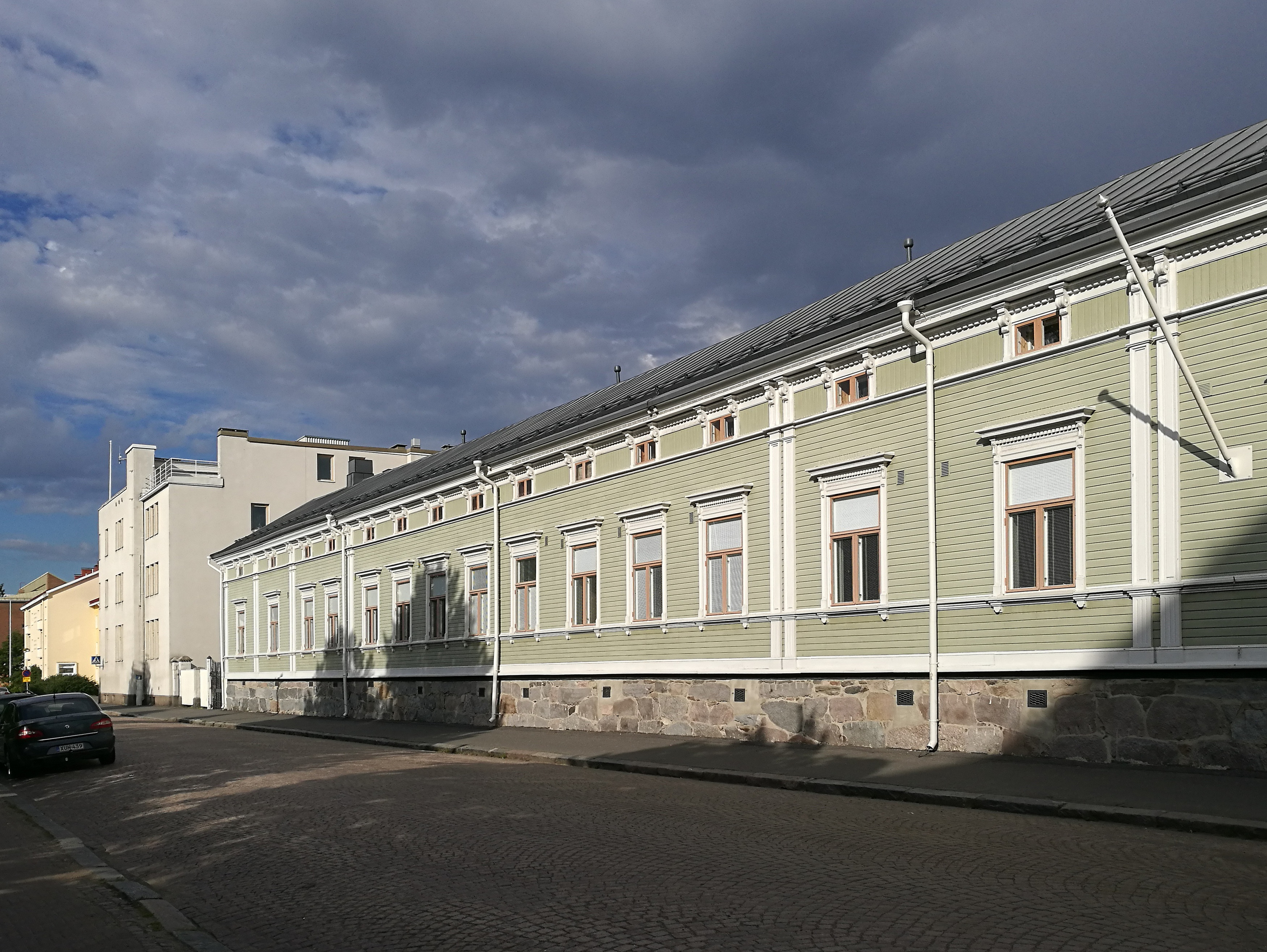 The Snellman house in Oulu.